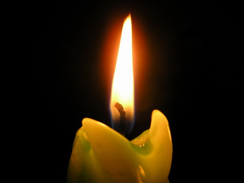 Candle